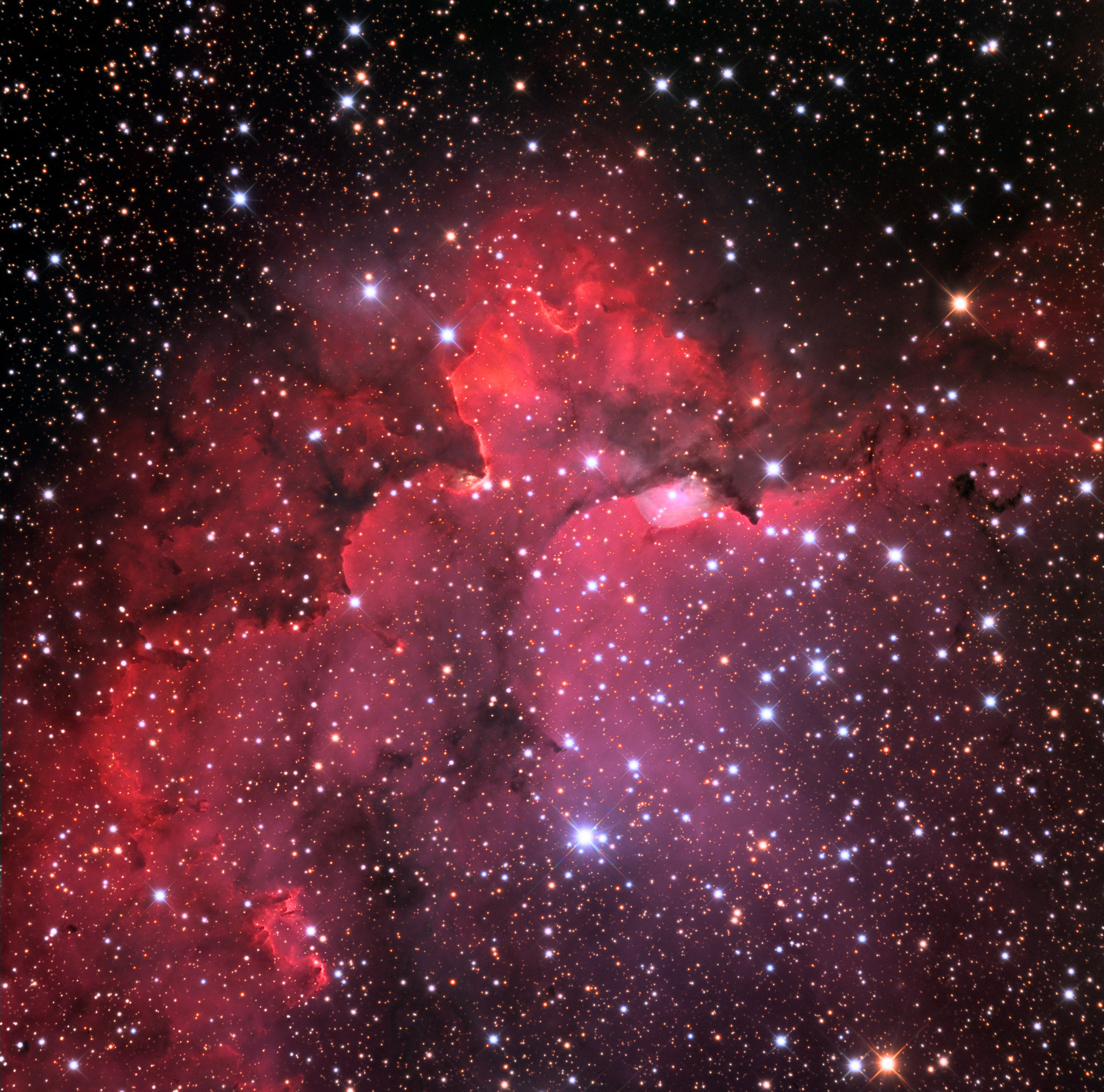 NGC7380, Wizard Nebula